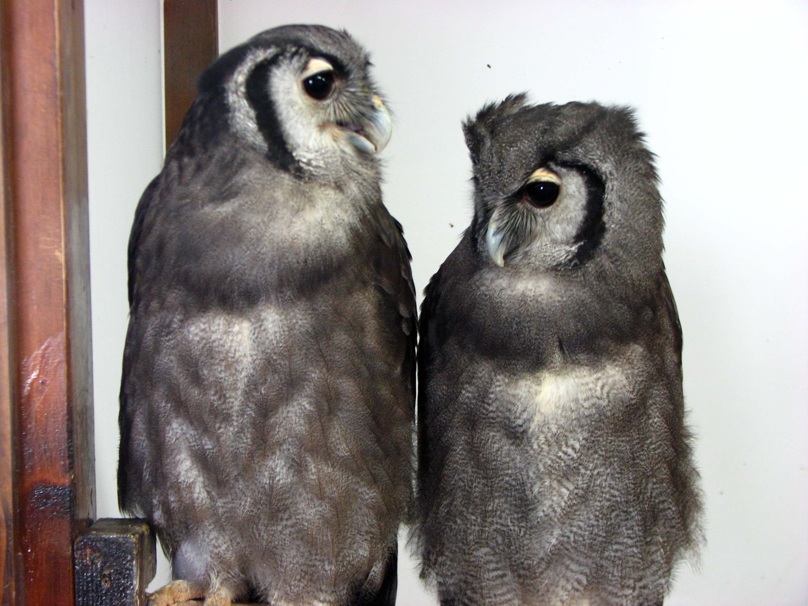 Verreaux's Eagle Owl (Bubo lacteus) These were the two who really wanted to peck at the children. Taken in Kobe-shi, Hyogo Prefecture